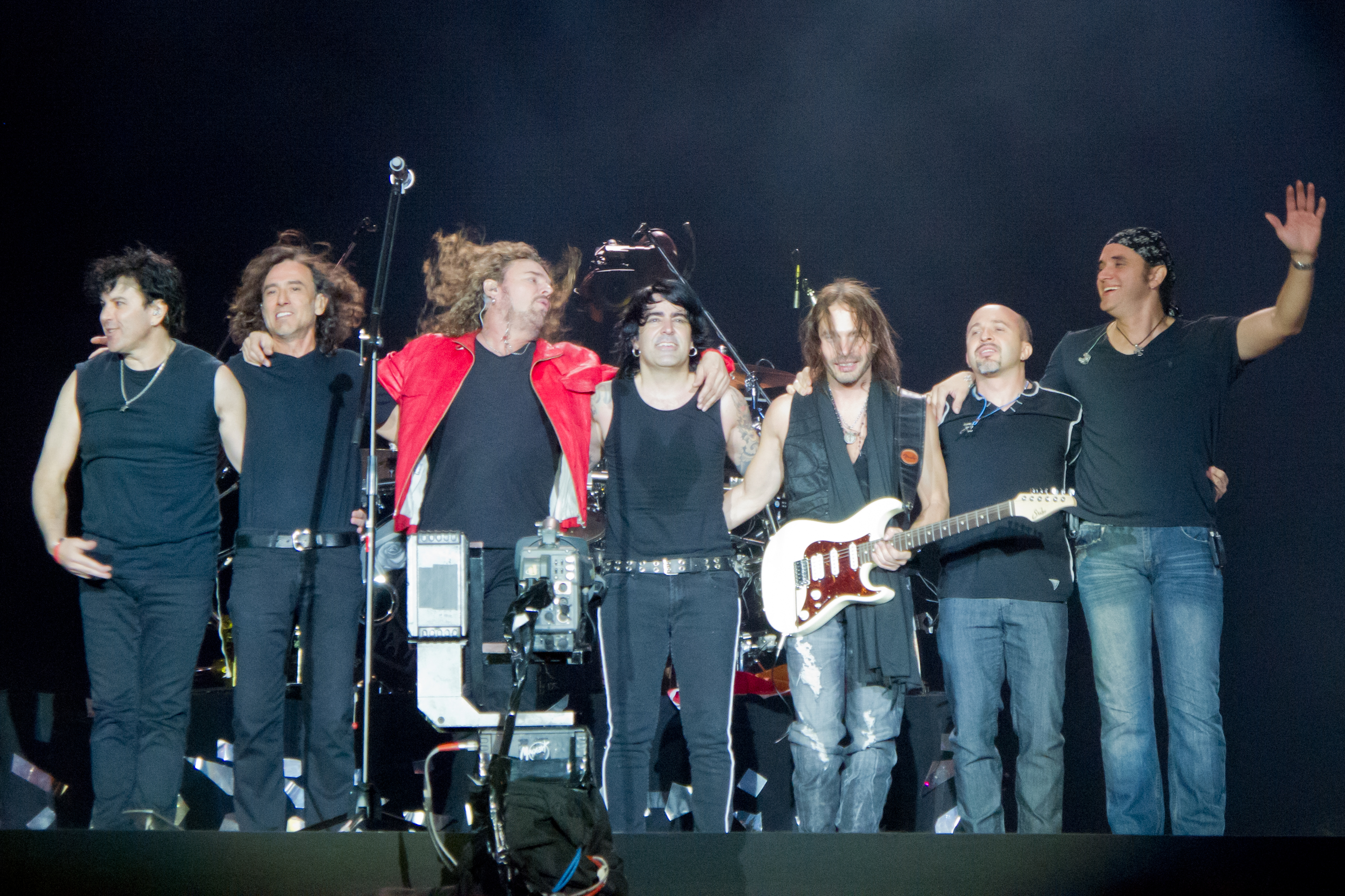 Maná in concert in Rock in Rio in Madrid in 2012.